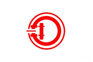 Flag of Kozaki Chiba